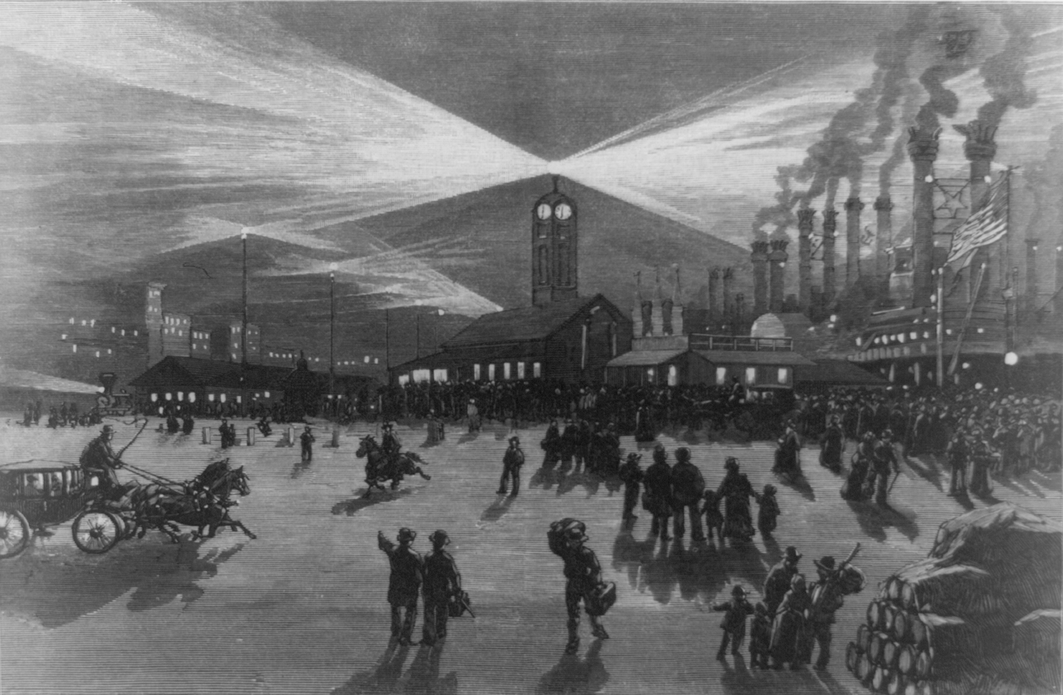 New Orleans, 1883. A levee at night - electric light illumination. Sketches on the levee, New Orleans / by J. O. Davidson. Illustration showing the New Orleans riverfront at night, crowded with people and steamboats, and showing electric lighting.